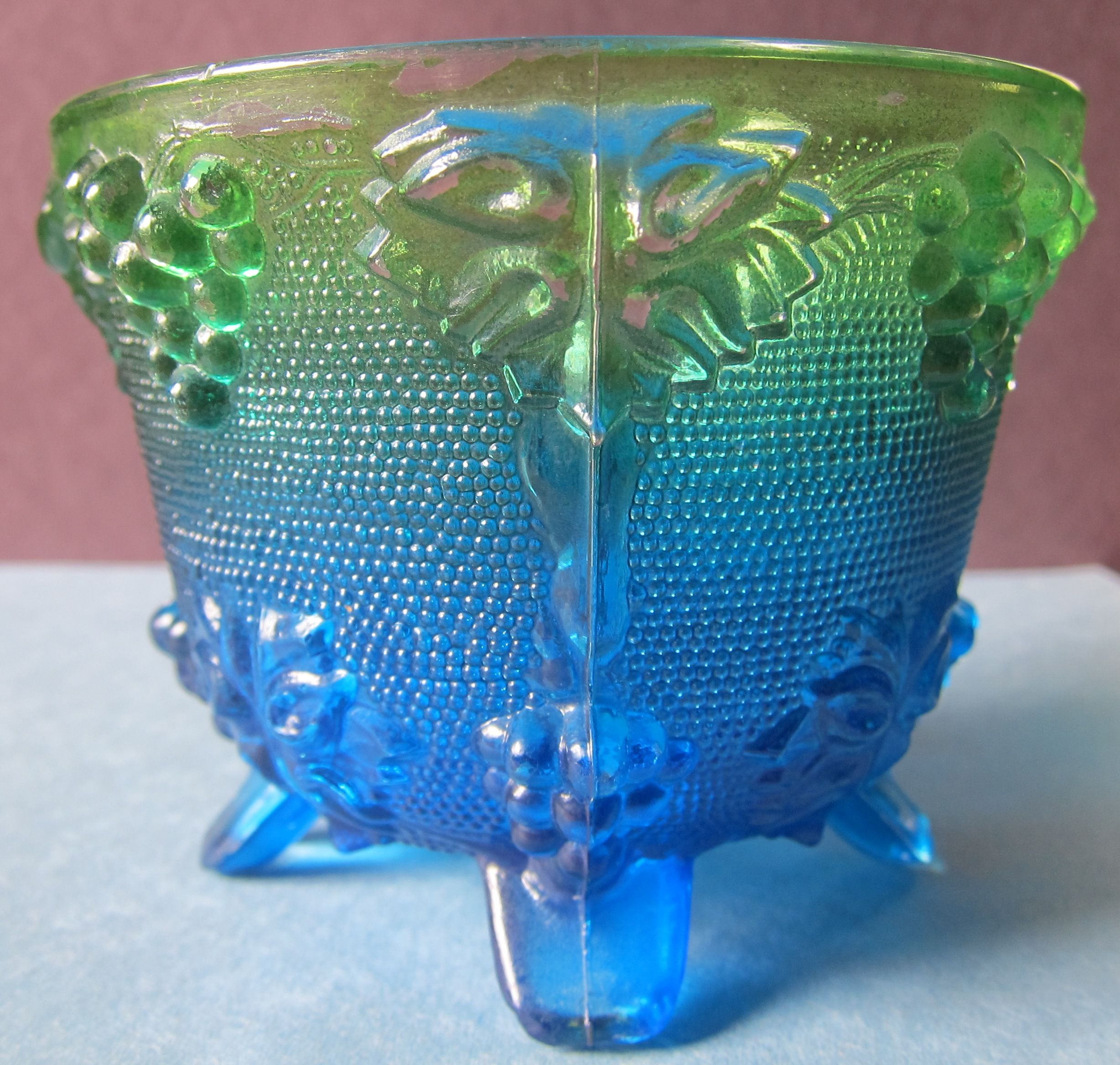 A glass bowl made by the casting process. The line in the center of the piece is actually an indicator that a "breakaway mold" was used to make the piece. Extremely complex forms and intricate decoration can be achieved using this process. The mold is generally made of packed silica sand and other amendments set in a metal box that comes apart in halves after the casting has cooled. The later stages of production are spent removing the excess glass from the outer edge of the piece as well as the fill holes in the sand that allow the mold to be filled.